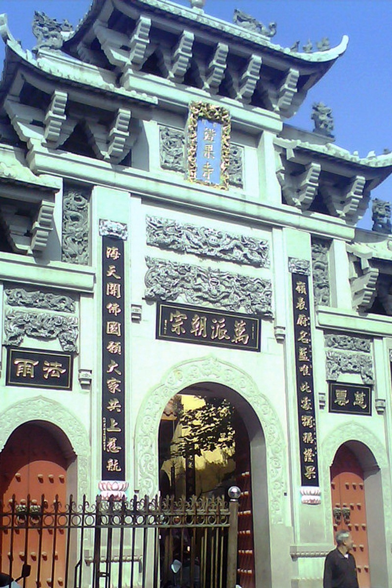 Zhengguo Temple at Shantou